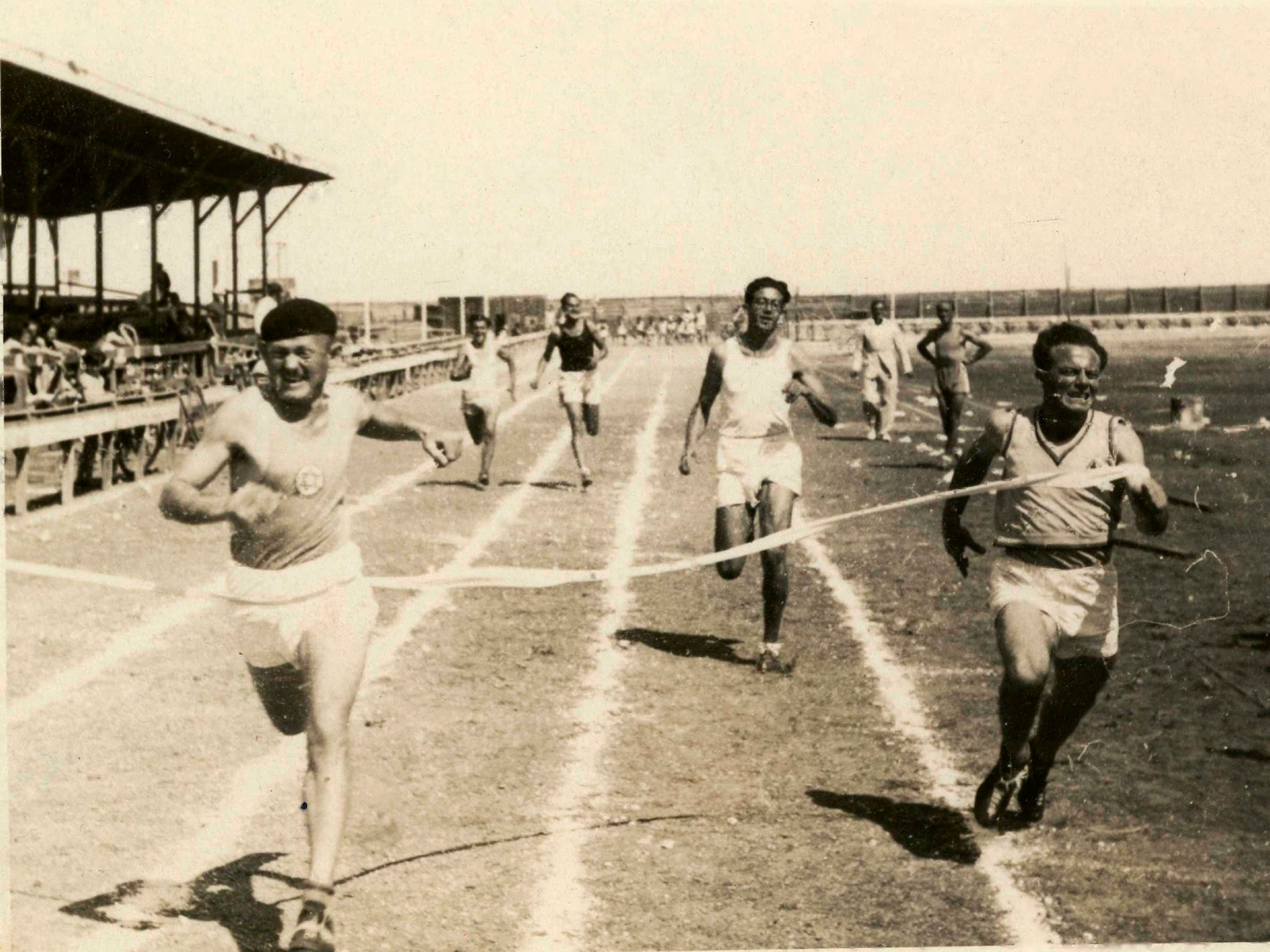 Sprinting event at the 2nd Maccabiah.